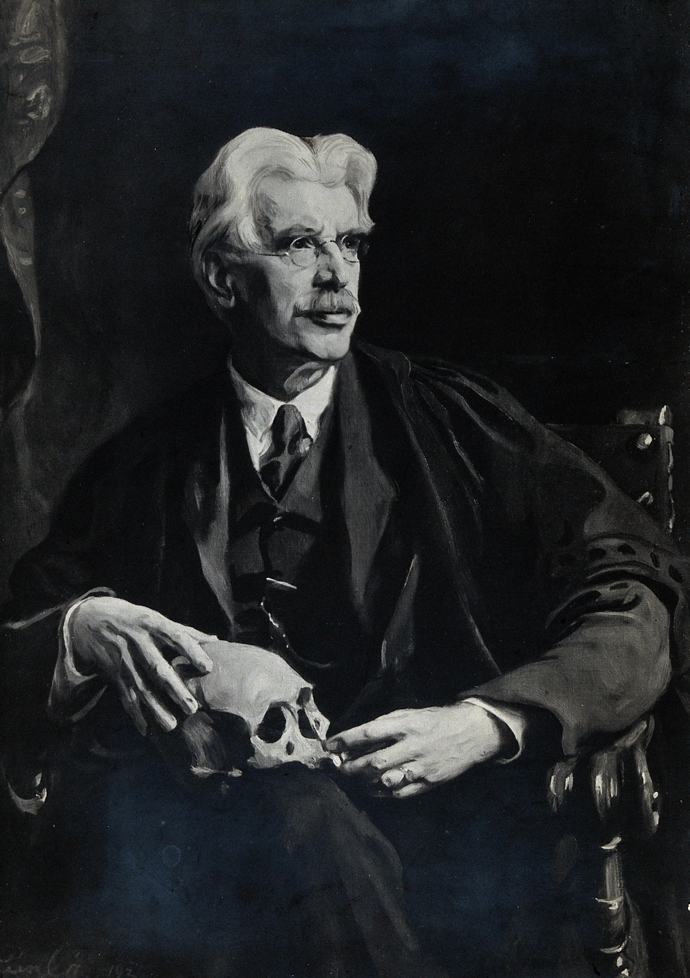 Alfred Cort Haddon. Photograph. Iconographic Collections Keywords: portrait photographs